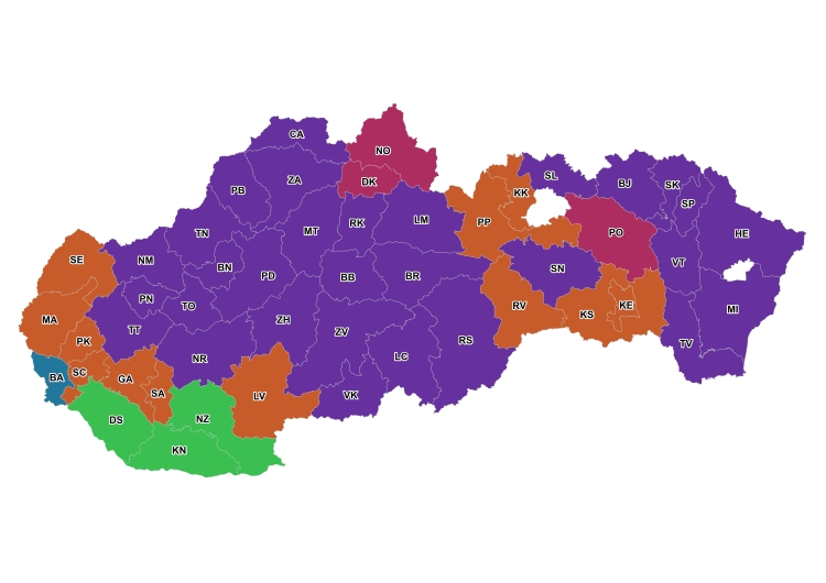 These are the results of the first round of Slovak Presidential election 2014 based on statistics.sk